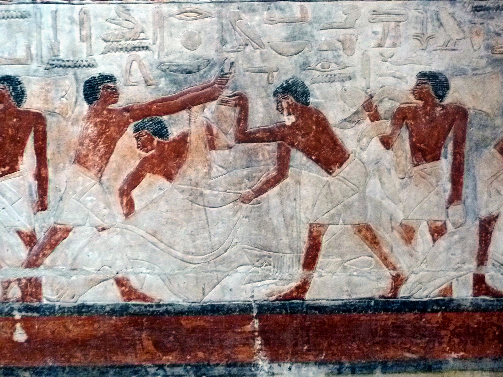 Polychrome relief of cattle cutting up in Kagemni mastaba, Saqqara, Egypt. Kagemni was a vizier of pharaos Djedkare Isesi and Unas (5th dynasty), and Teti (6th dynasty), 24th century BC.